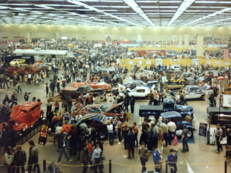 A large crowd attends the 33rd Annual Detroit Autorama in January 1985. The Ridler Winning ,built by California's Bobby Alloway, is shown in the bottom right corner.